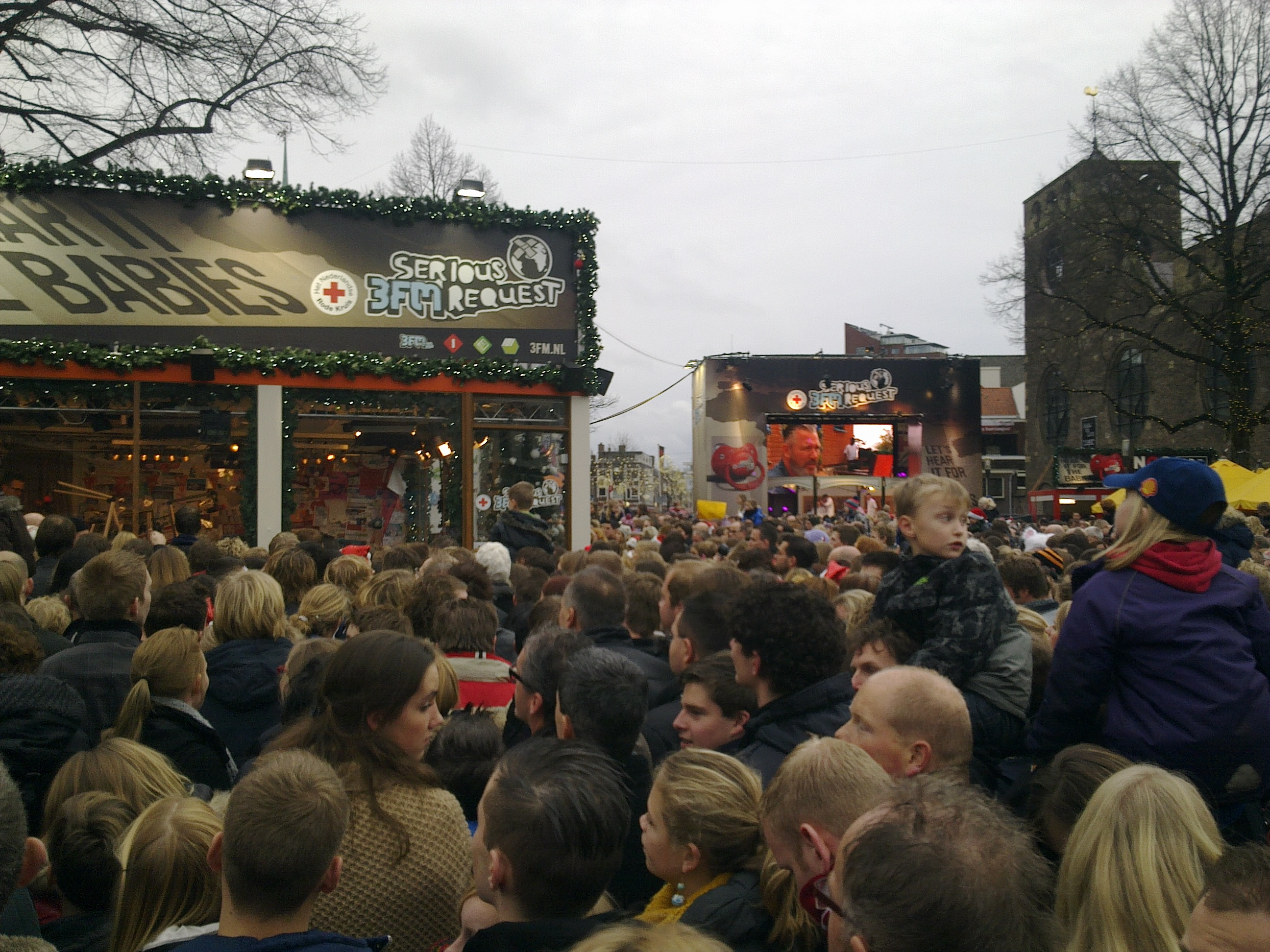 The Old Market in Enschede full of supporting people of Serious Request 2012.